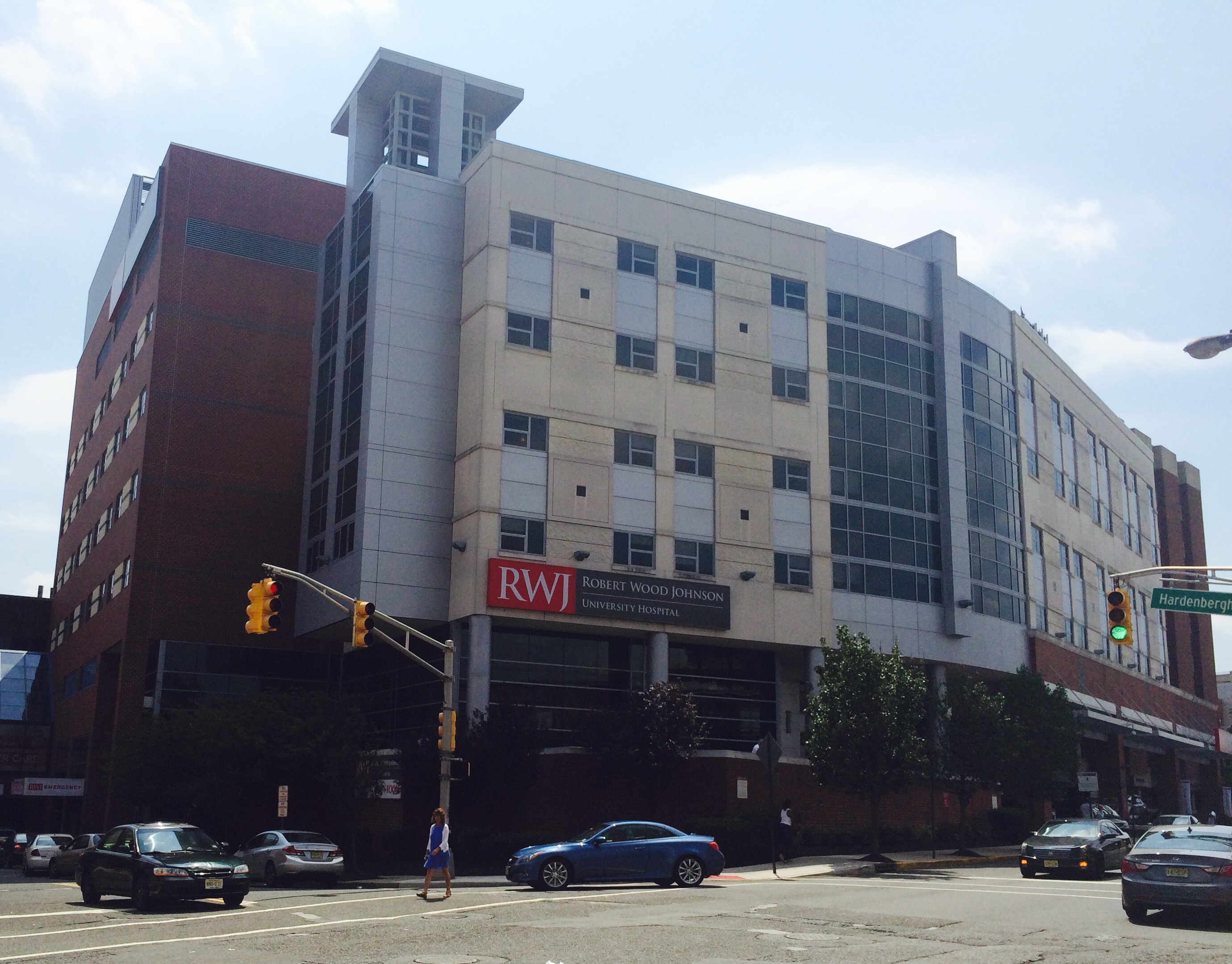 Robert Wood Johnson University Hospital in New Brunswick, NJ, taken August 24, 2015.